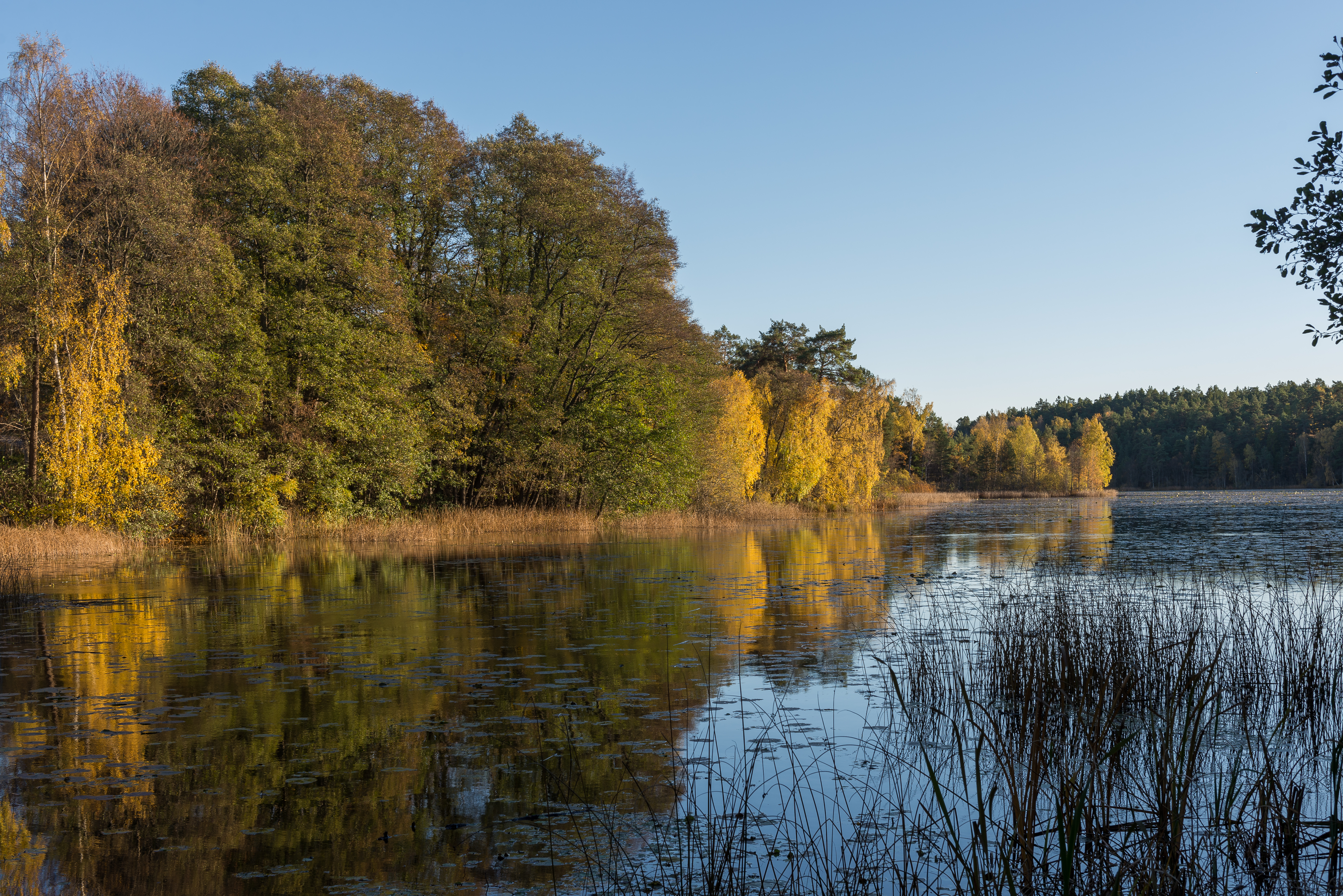 Lake Dammtorpssjön, Nacka, Stockholms county.